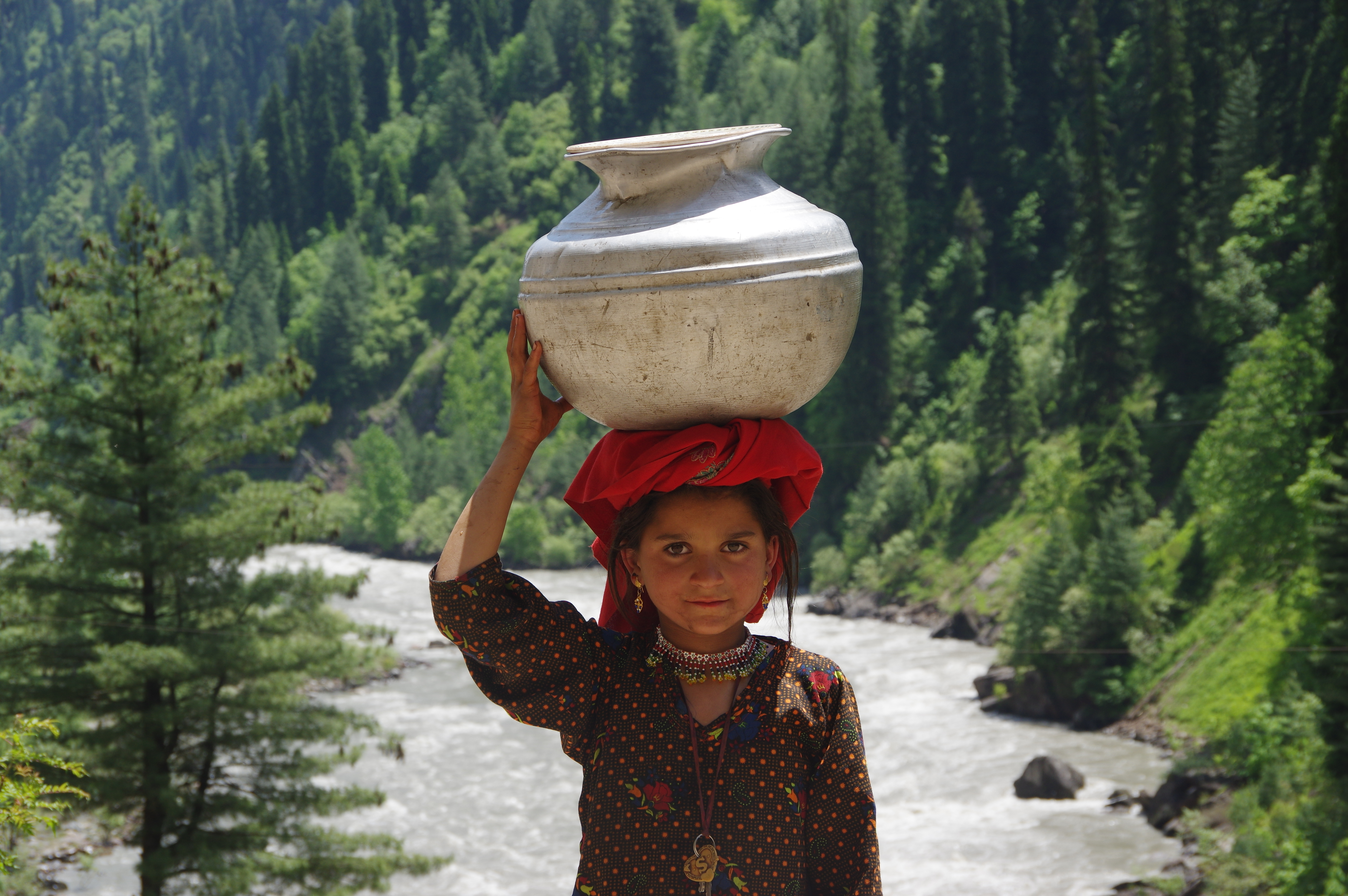 This girl was walking back to her home with her brother after gathering supplies for their family, she is seen carrying fresh water for her family in this photo.